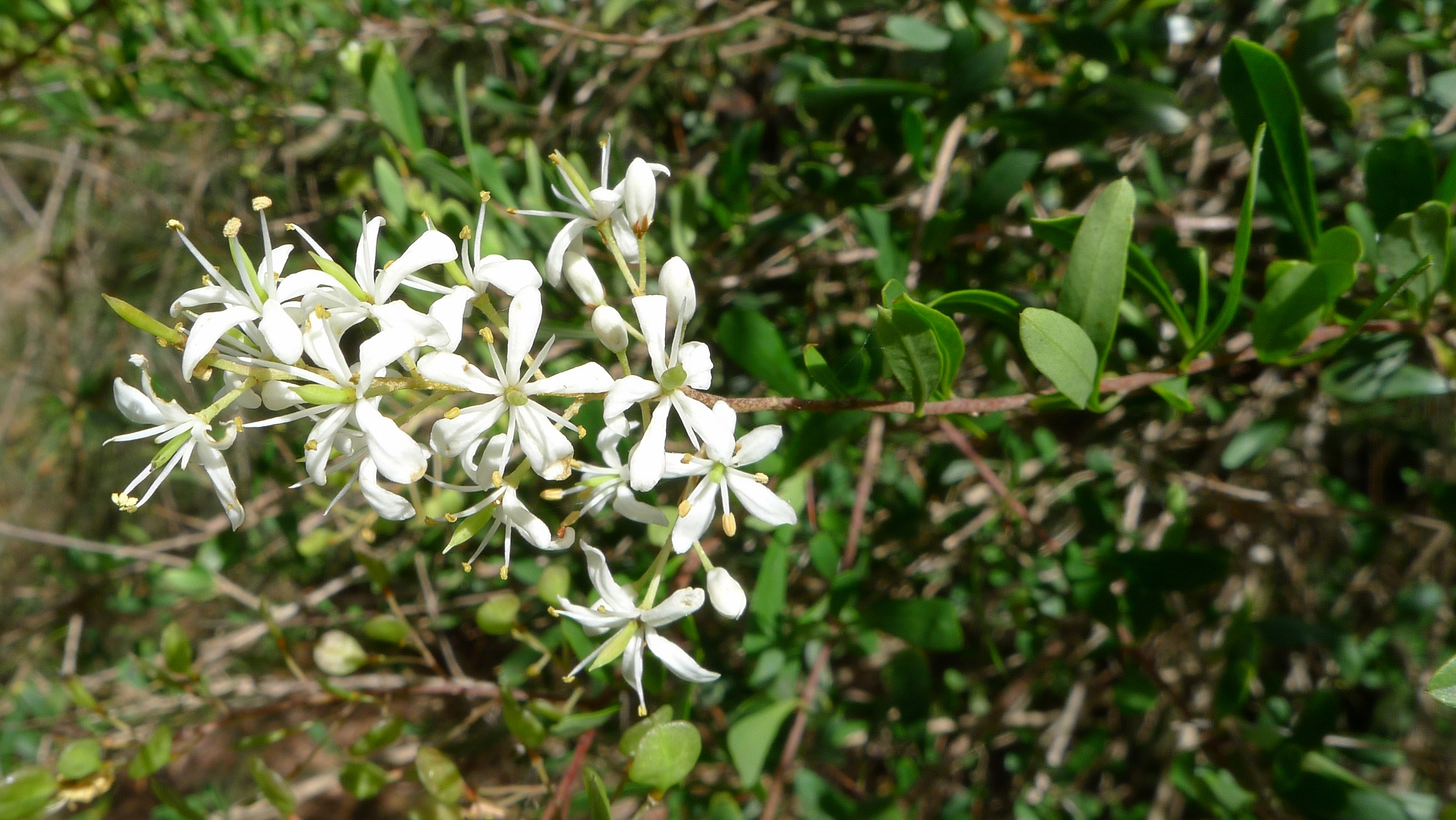 Boxthorn, Bursaria spinosa subsp. spinosa. Rostella Reserve, Dilston Tasmania Australia, January 2012.